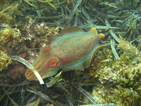 Giant cuttlefish annual breeding cycle in the shallow waters off Whyalla,South Australia. (One of only two places in the world where this occurs.) It is a major tourist attraction for divers from around the globe. This spectacular event occurs in June each year. The site is under threat from a proposed desalination plant for an outback mining venture and new wharf facilities for another new mining proposal.